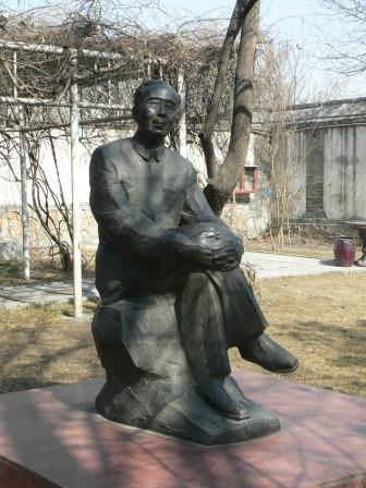 Go Moruo statue in Bejing's Shichahai Park